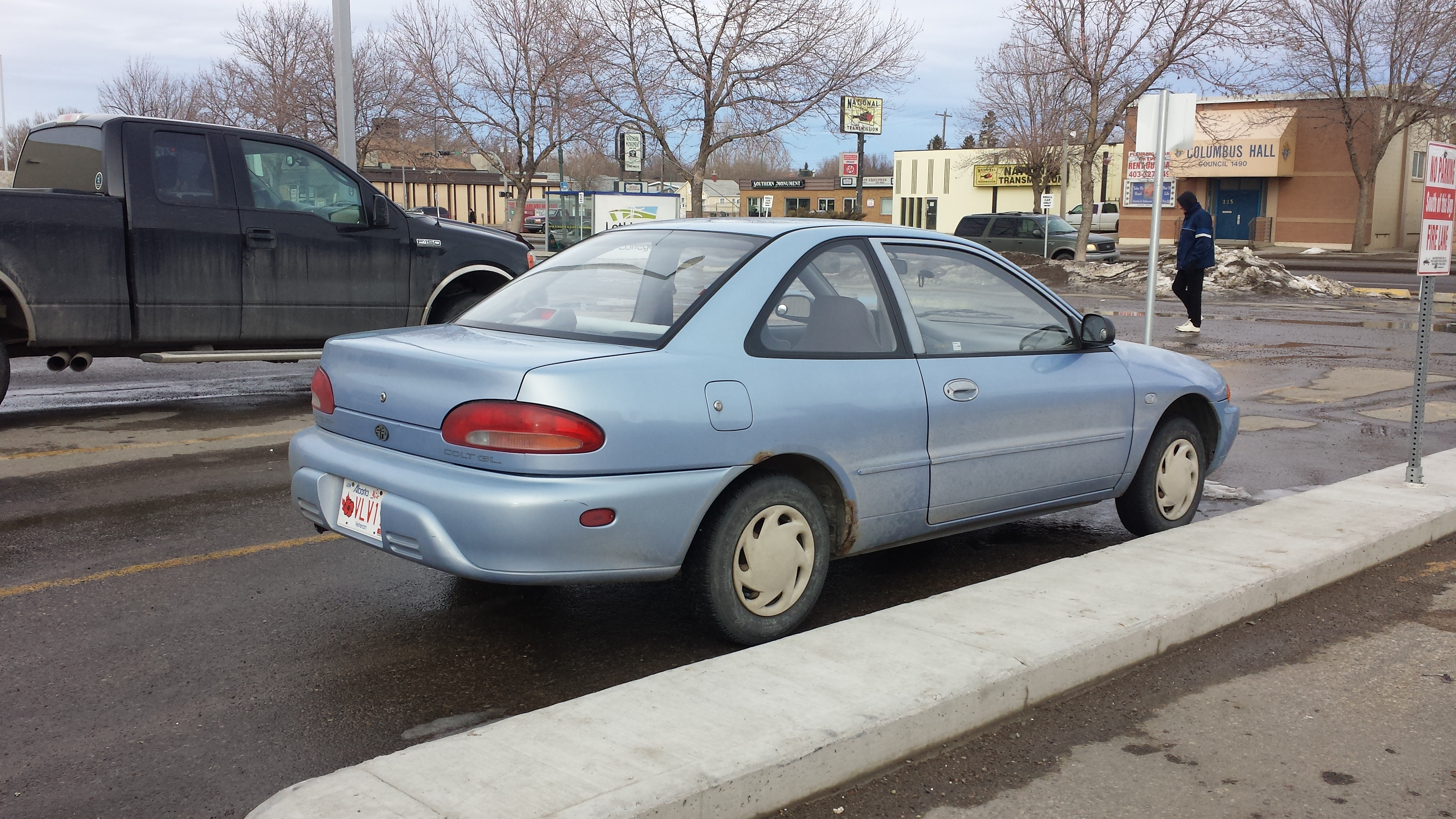 Plymouth Colt